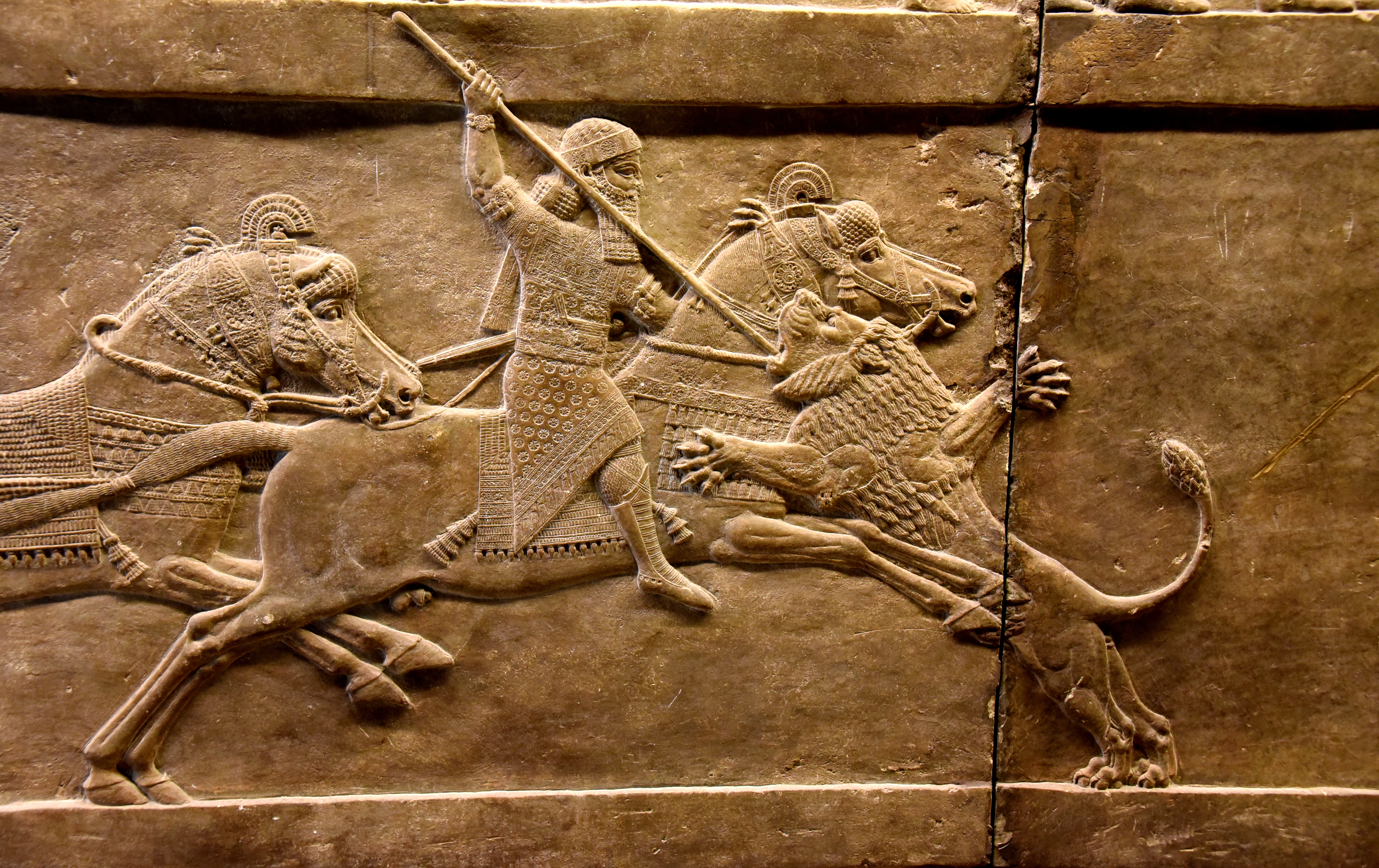 Assyrian king Ashurbanipal on his horse thrusting a spear onto a lion’s head. Alabaster bas-relief from the North Palace at Nineveh, Mesopotamia, modern-day Iraq. Neo-Assyrian Period, 645-635 BCE. Currently housed in the British Museum in London.